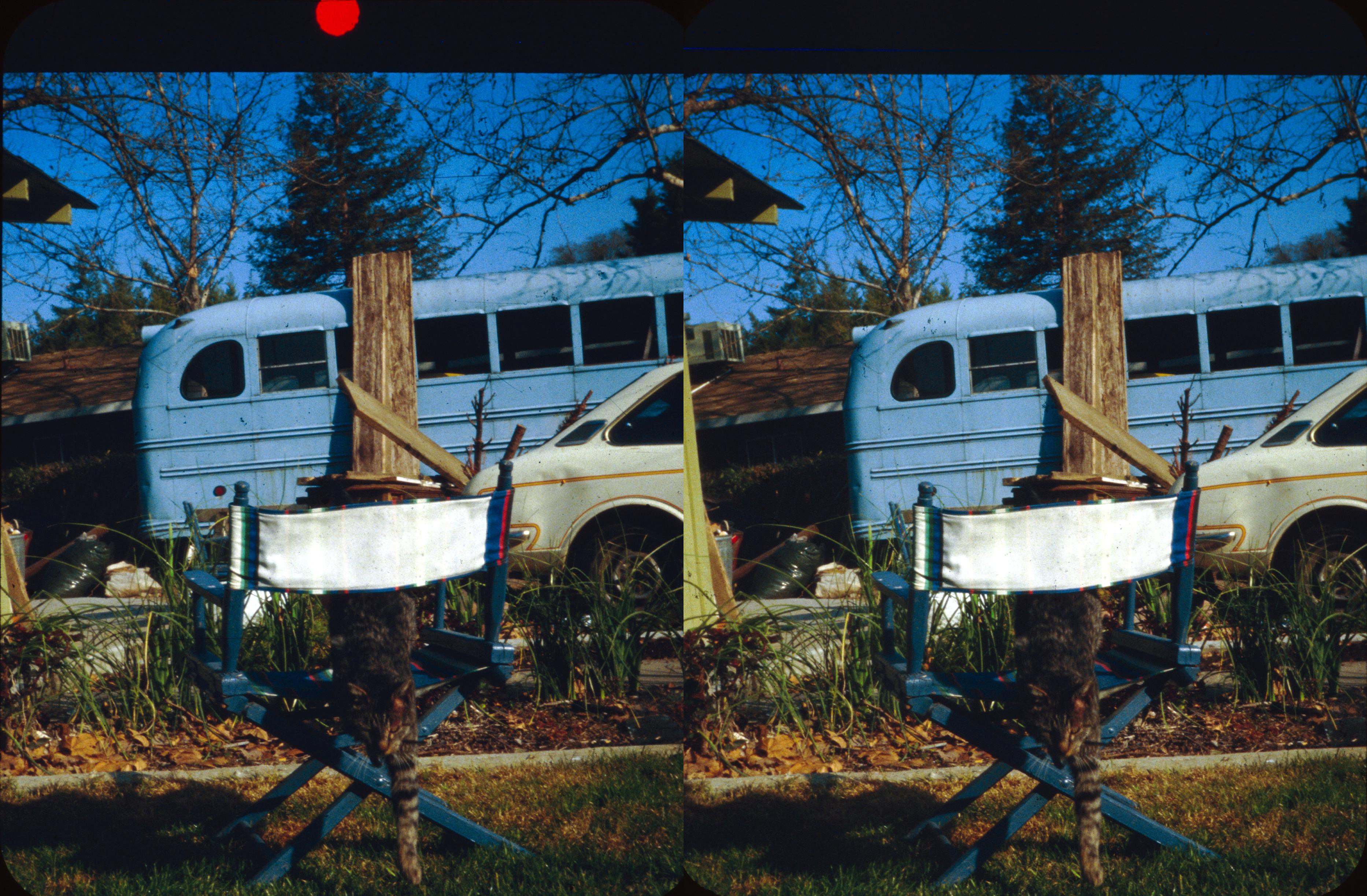 Stereo pair taken with Nimslo using slide film. Note that you can see the red dot, which on color negative film would be green. Usually you would crop this out, it was left in for illustration purposes.